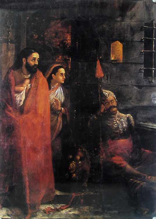 Vasudeva and Devaki escaping prison after birth of Krishna.